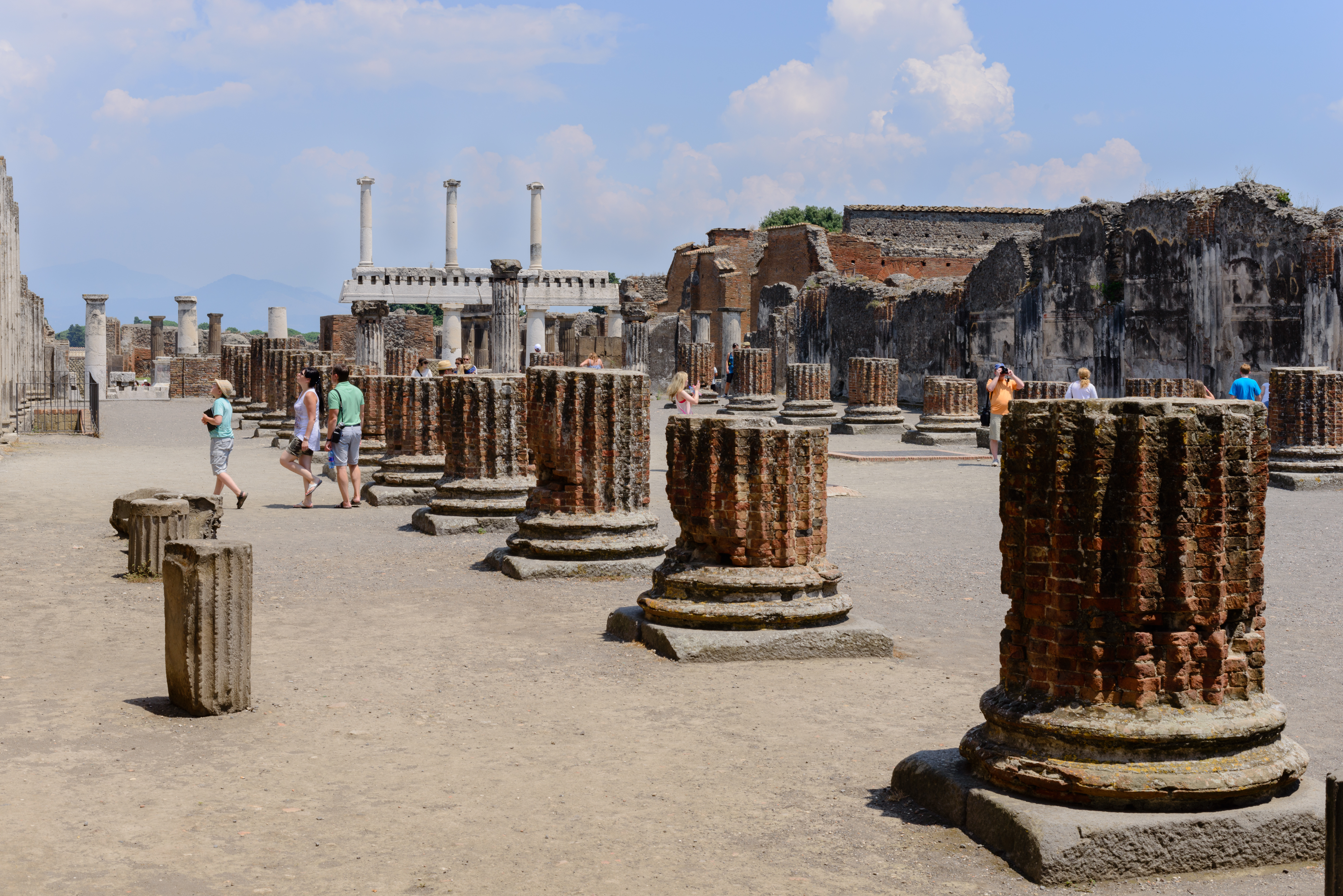 Forum, ancient Roman Pompeii, Campania, Italy.